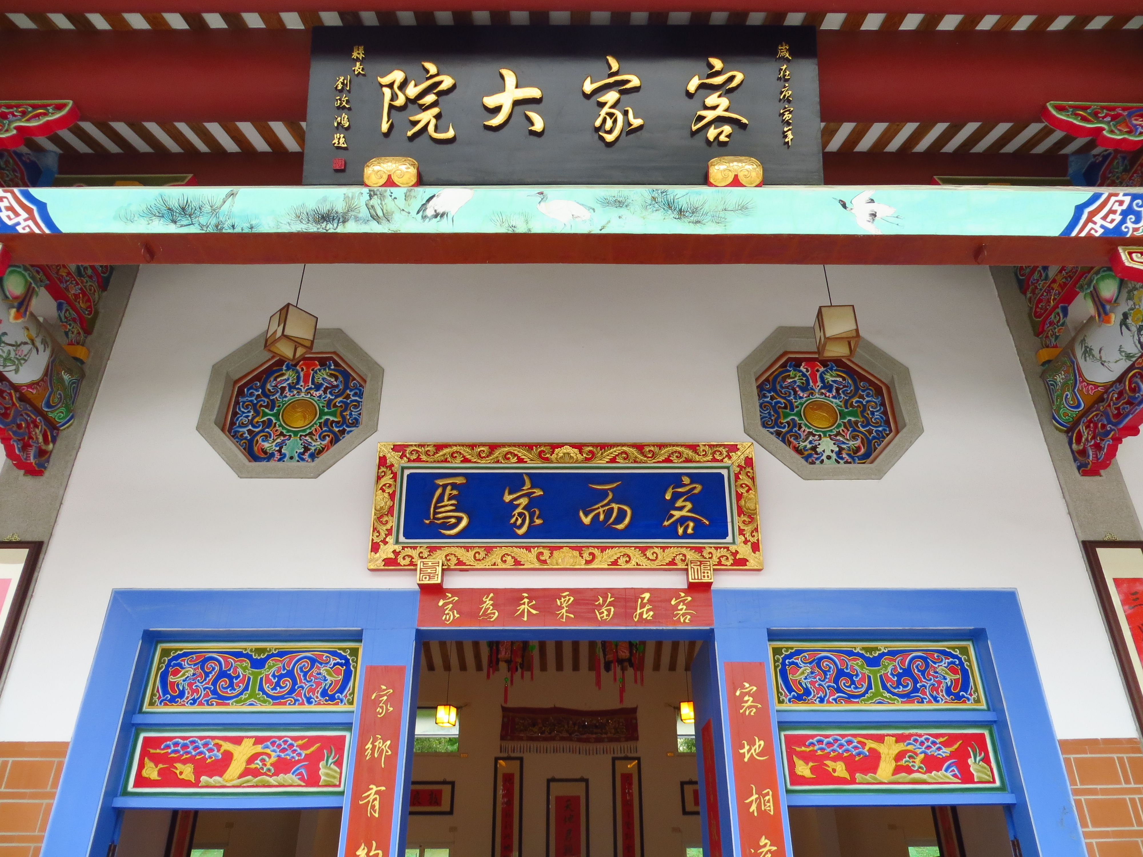 Hakka Compound, Tongluo, Miaoli, Taiwan.